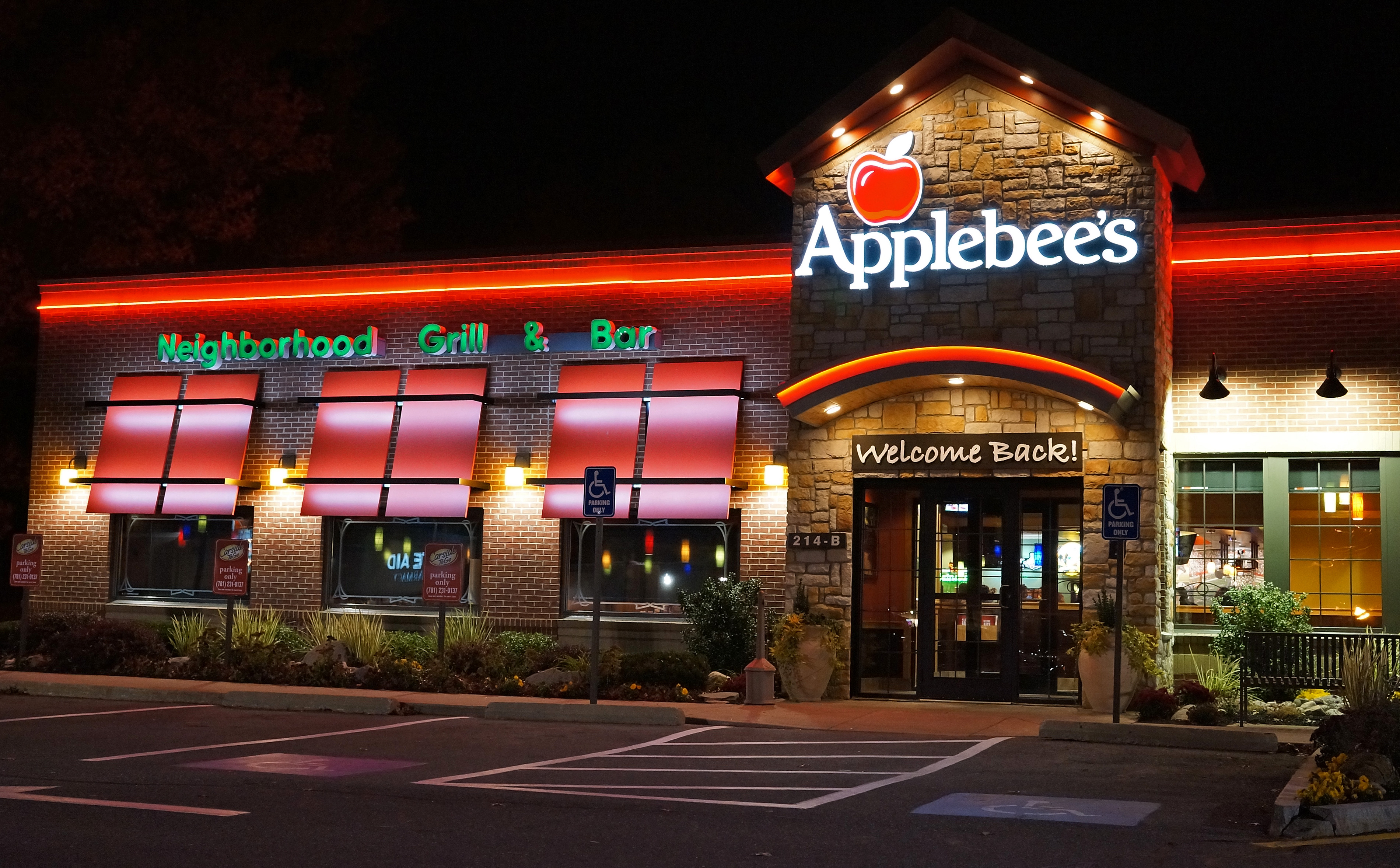 Applebee's restaurant Rt.1, Saugus, Massachusetts USA. Night view.